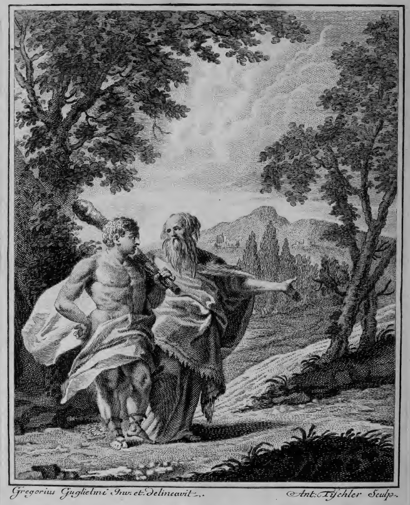 Johann Adolph Hasse - Alcide al bivio - image from the libretto - Vienna 1760